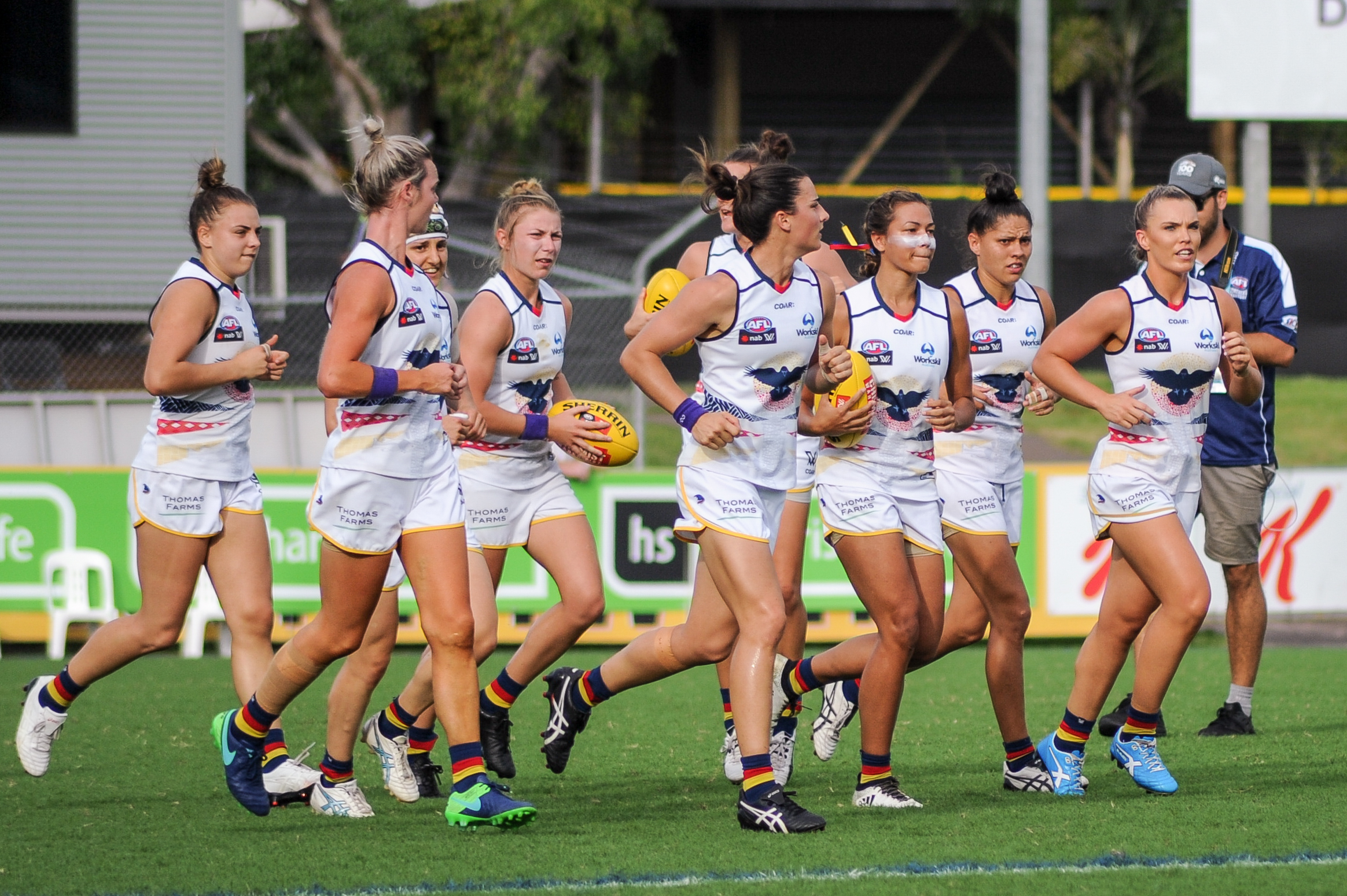 Adelaide running out for the AFL Women's round six match between Adelaide and Melbourne on 11 March 2017 at TIO Stadium in Darwin, Northern Territory